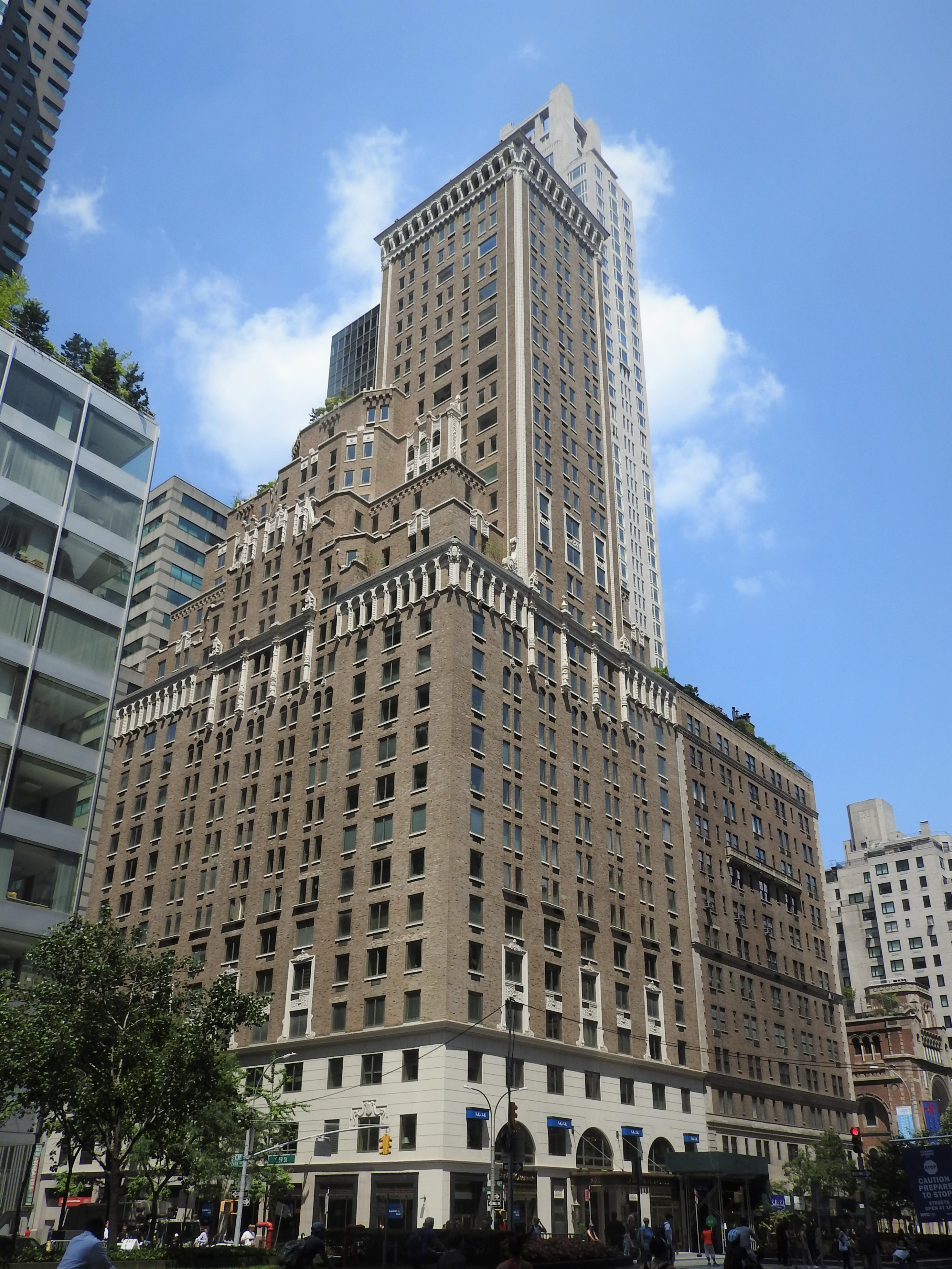 Looking north across Park Avenue on a mostly sunny midday